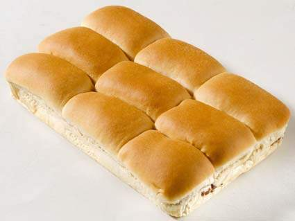 Buchta, traditional pastry of Czech Republic.